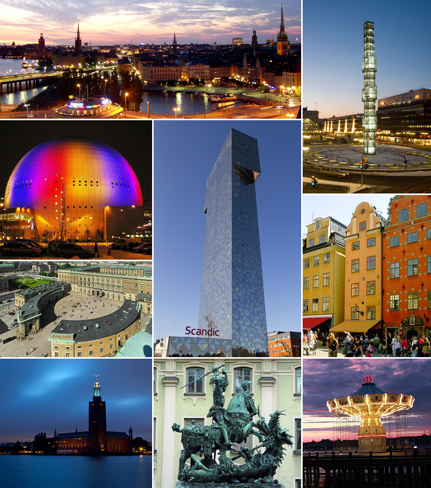 Landmarks of Stockholm. The photo is a montage of various files from Wikimedia Commons.